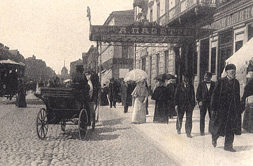 The wrought-iron veranda entrance to the photographer Pasetti on Nevsky Prospect 24, St. Petersburg. In the distance the gilded spire of the Admiralty is visible.